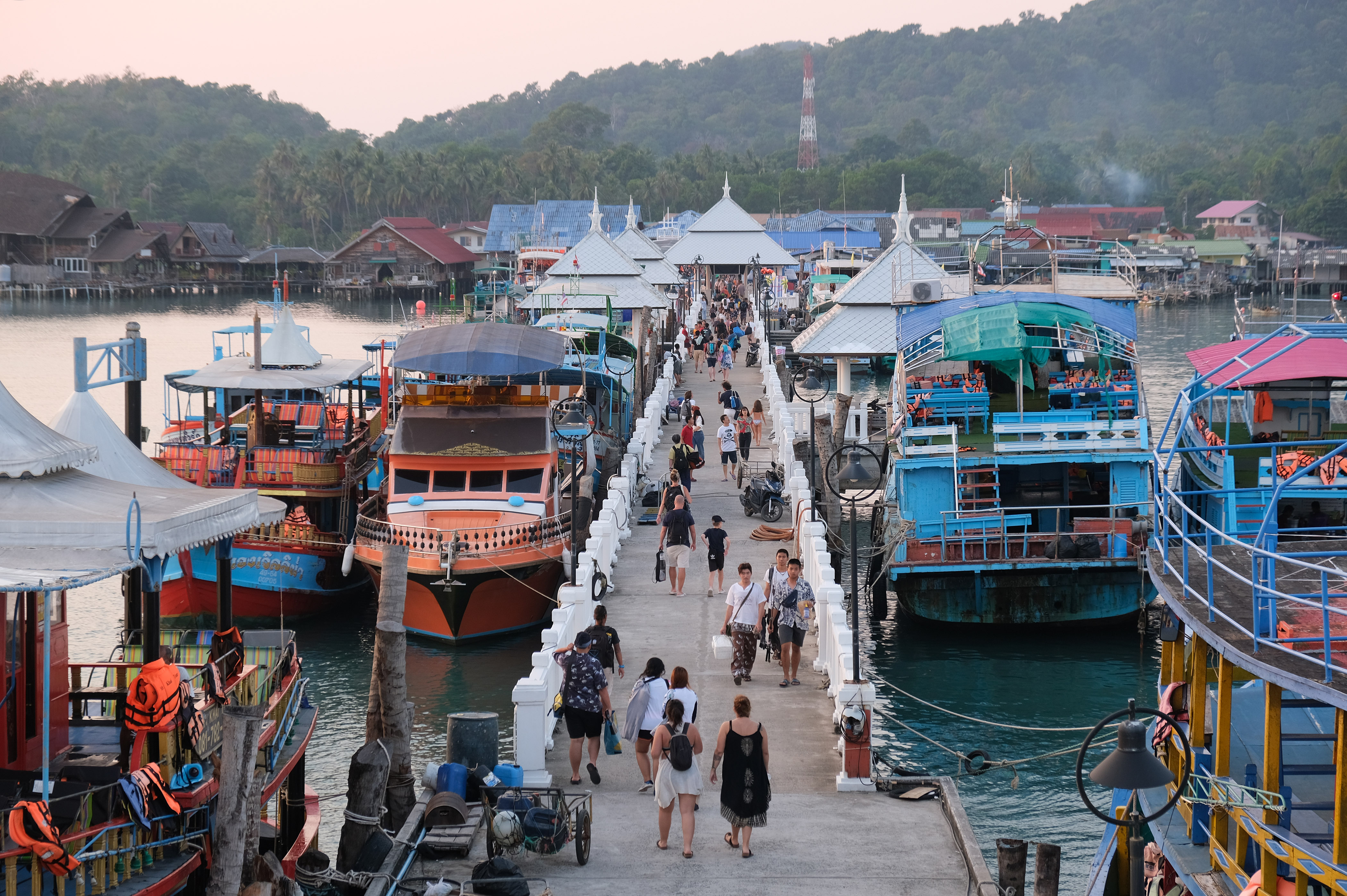 Bang Bao Pier, Koh Chang.